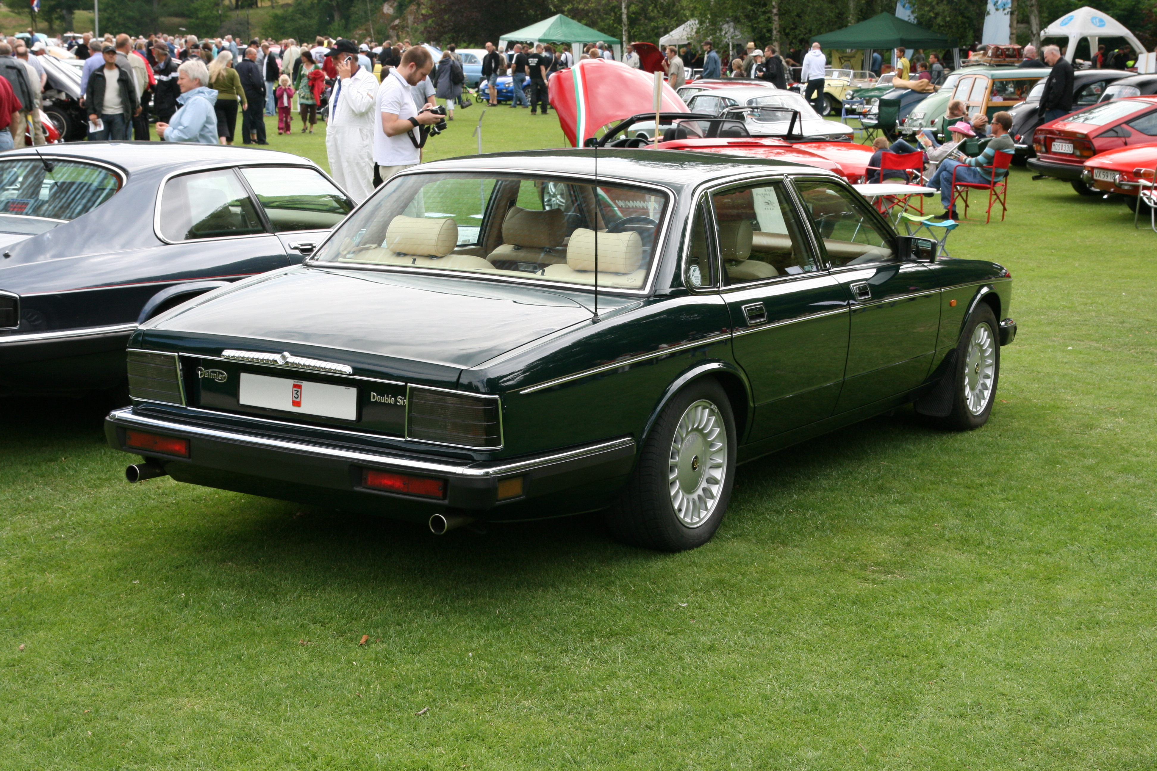 Rear right view of a 1994 Daimler Double Six in British racing green paint parked at the 2008 Nostalgia Festival auto show in Ronneby, Sweden.